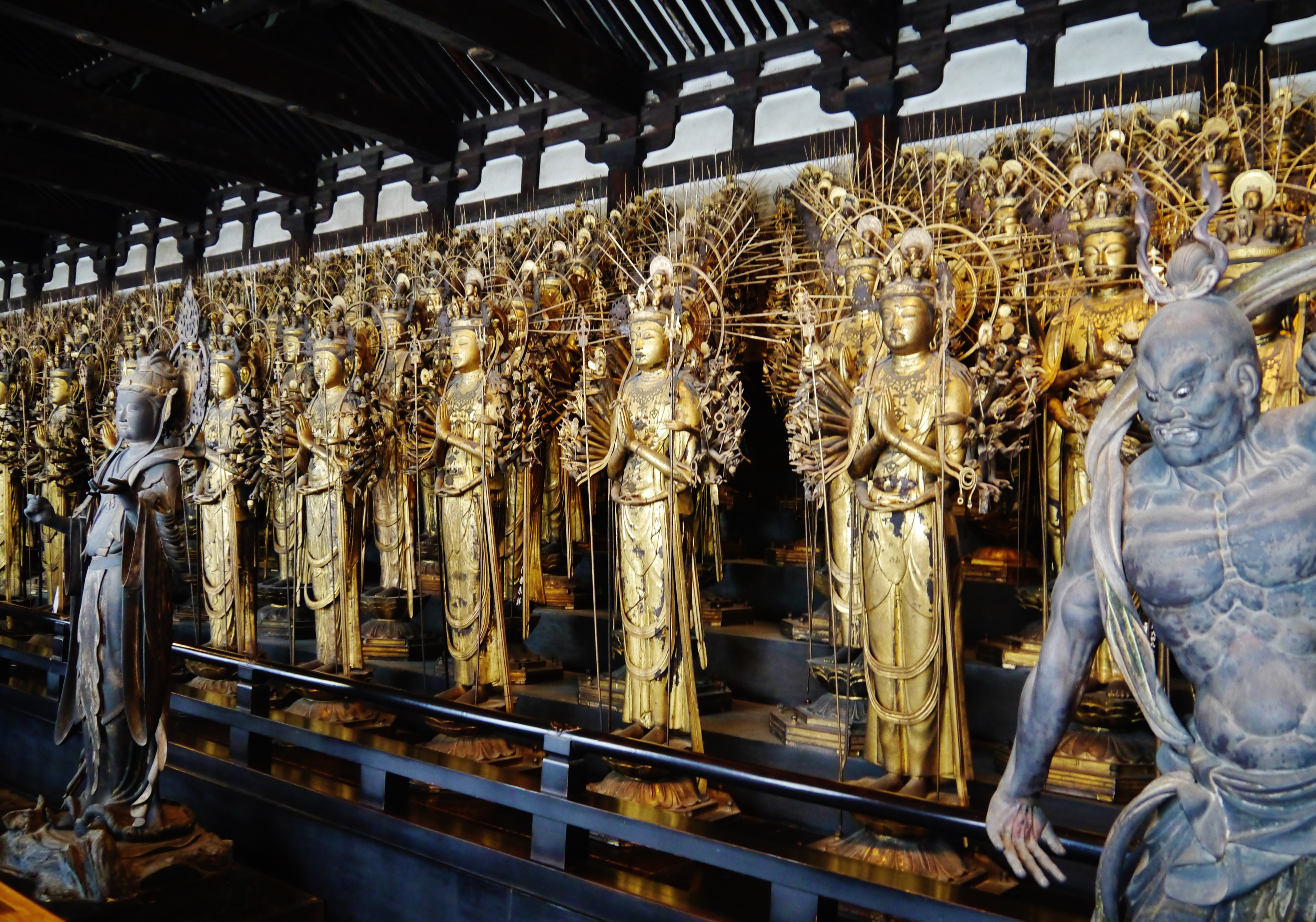 Buddha Statues at the Main Hall of the Sanjusangen Temple, Kyoto, Kyoto Prefecture, Kinki Region, Japan